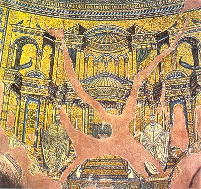 Saints Cosmas & Damien, mosaic in Saint Georges Rotunda